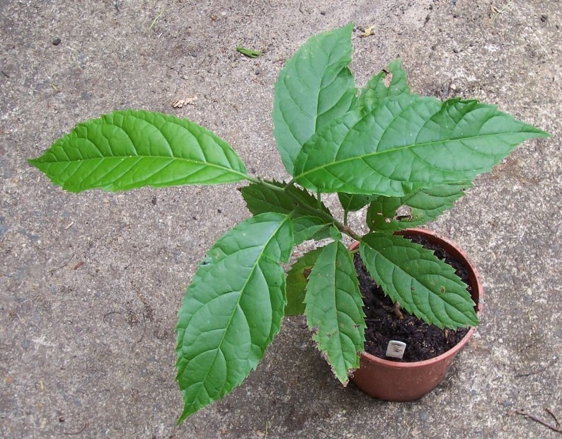 Ehretia acuminata, juvenile. Seed collected without leaving the car - just grabbing a large panicle of orange seeds from the driver's window, near Singleton, NSW, Australia